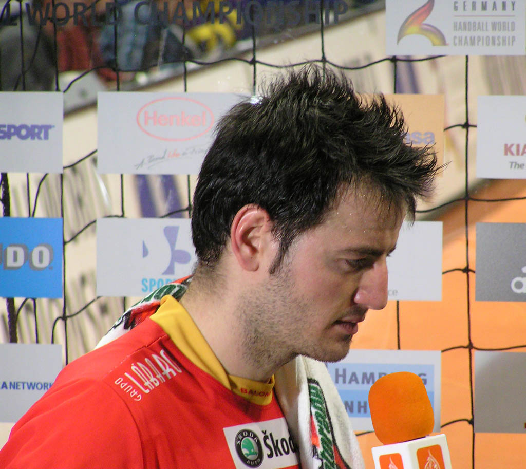 Iker Romero, on January 24th 2007 in Mannheim , SAP-Arena (Germany), after the Handball World Championchip game Spain - Russia 33:29 (17:15)